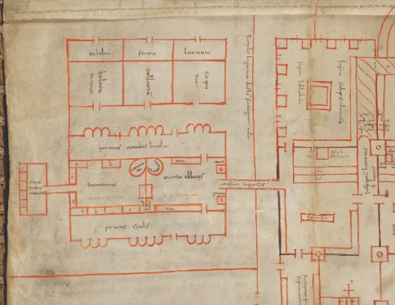 Plan of Saint Gall Abbot's house